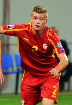 Ezgjan Alioski